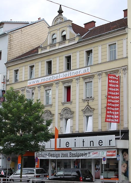 House Moebel Leitner in Linz.